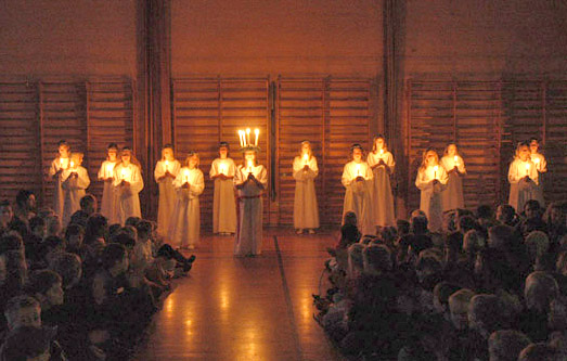 Picture of Danish girls in the Sct. Lucia parade at a Helsingør public school, 13 December 2001 Author: Niels Henningsen